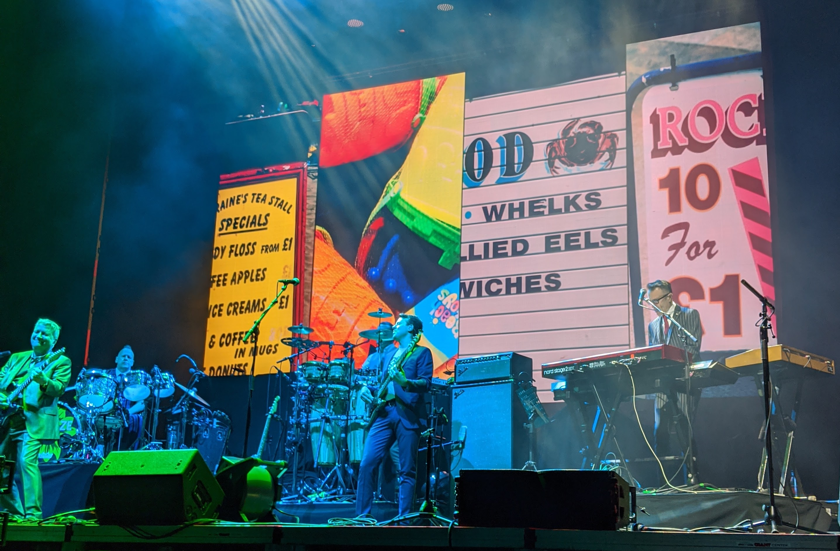 The current lineup of Squeeze performing at Giant Center in Hershey, PA on 2020-02-26. Glenn Tilbrook at far left. Chris Difford out of frame at left.